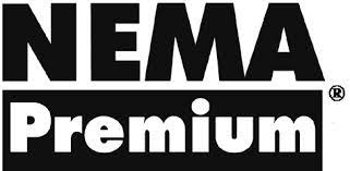 Logo for organization NEMA